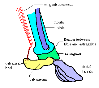 Diagram of therian version of crurotarsal ankle.